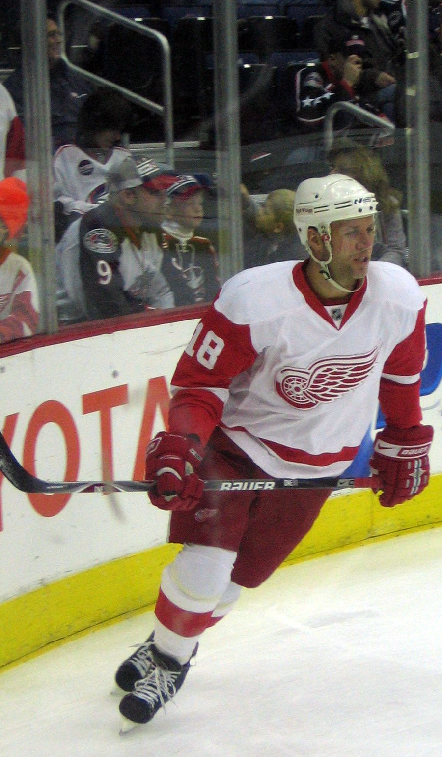 Kirk Maltby of the Detroit Red Wings warms up prior to their game against the Columbus Blue Jackets.